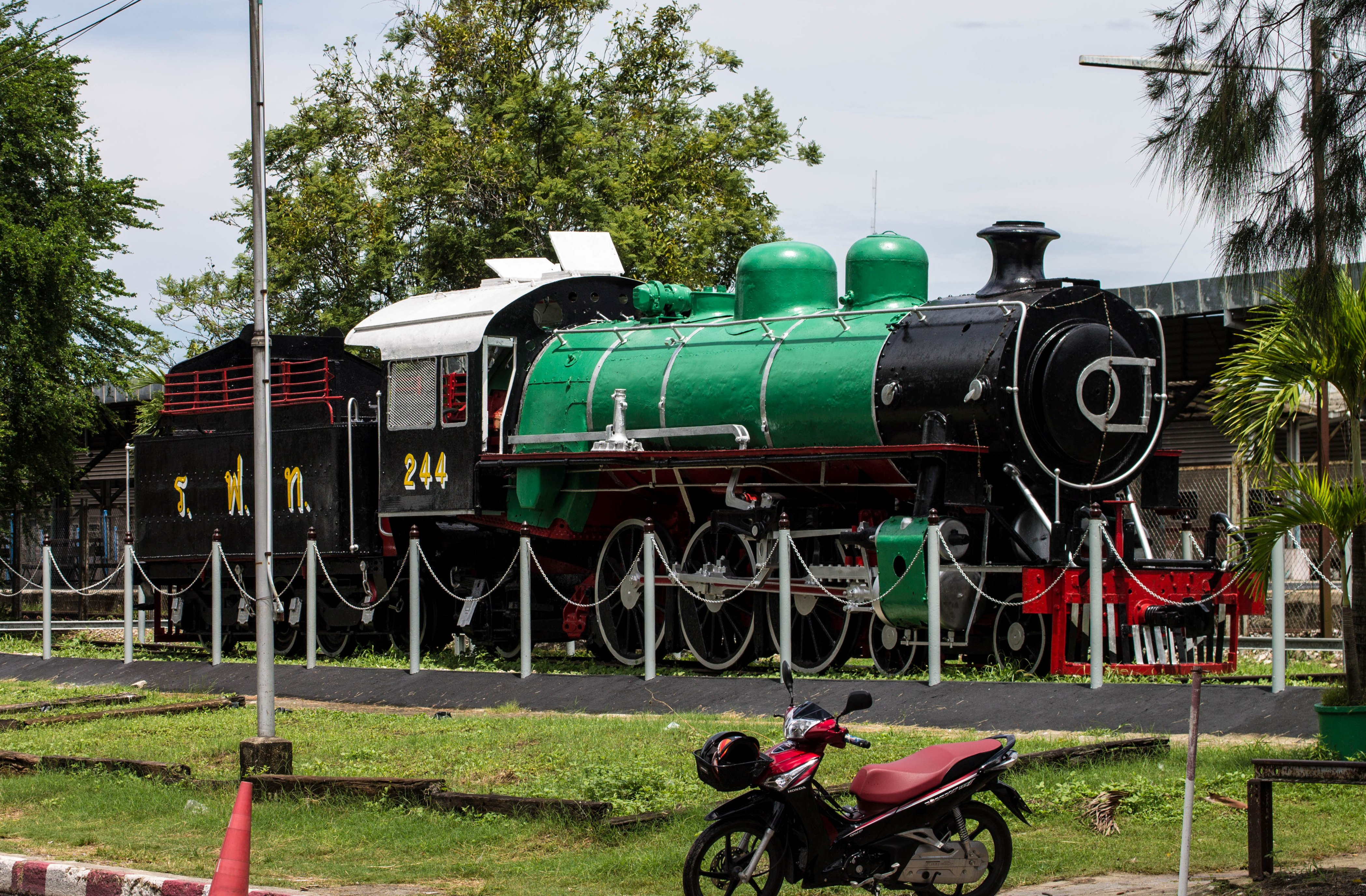 SRT (former RSR) No. 244 steam engine (Baldwin 4-6-2) preserved nearby Hat Yai Junction railway station.